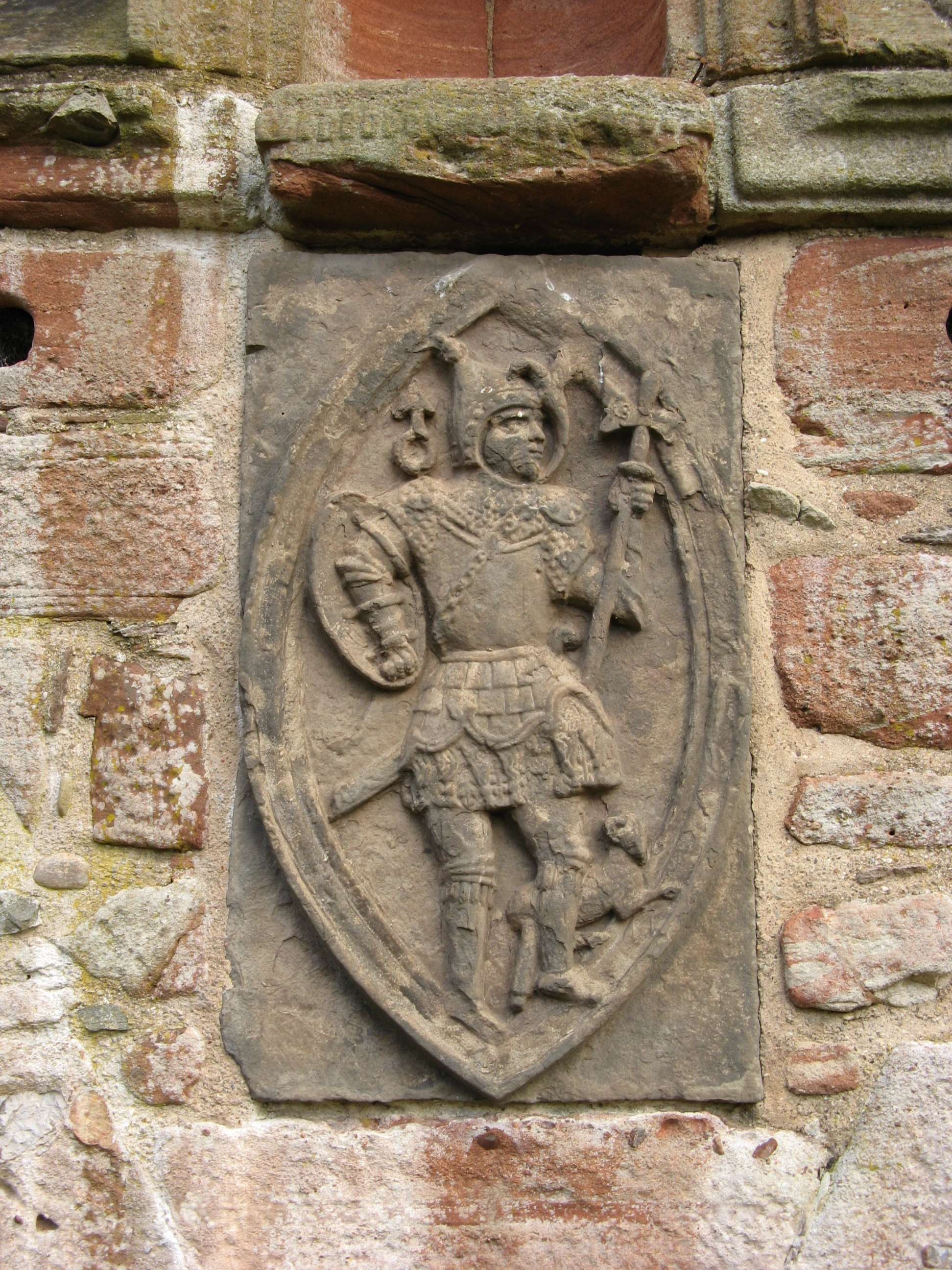 Edzell Castle, Angus, Scotland. One of the seven planetary deities carvings.